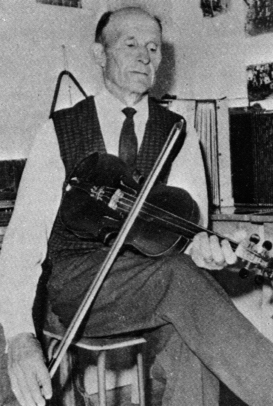 Photograph of the Finnish folk musician Otto Hotakainen (1908–1990).